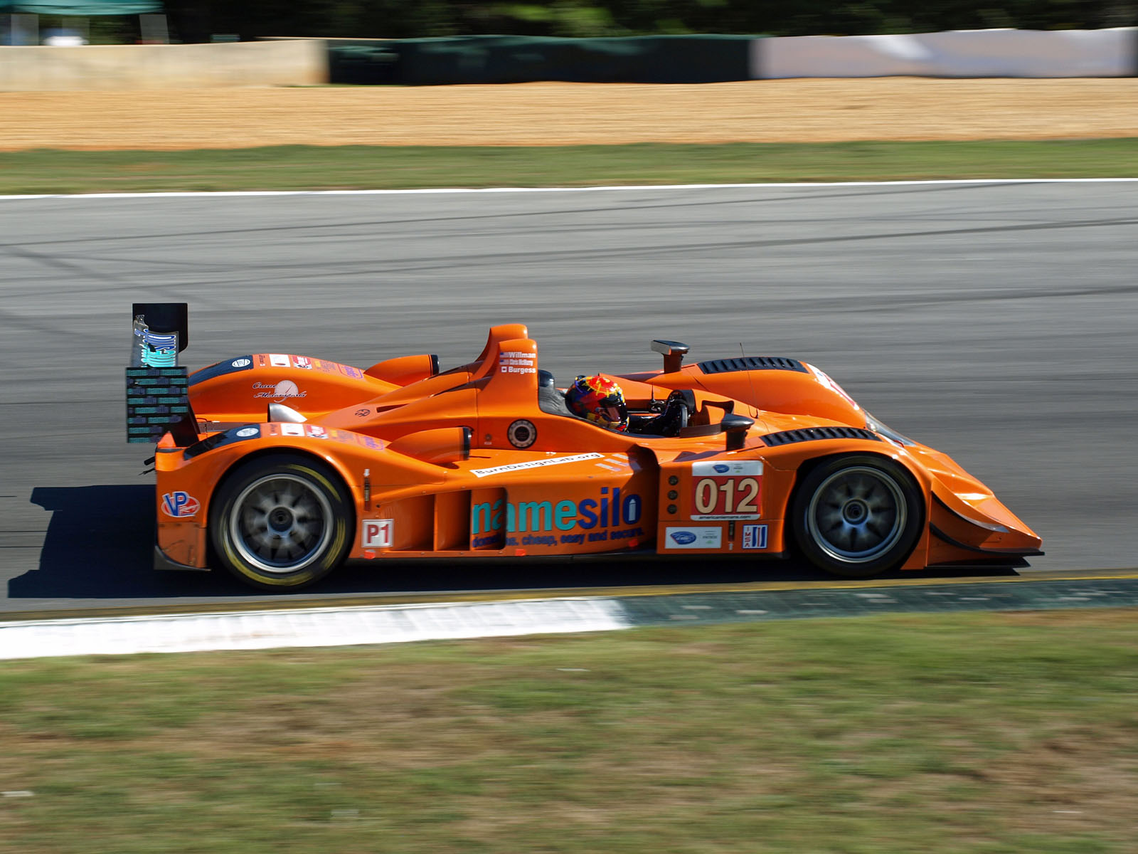 Chris McMurry driving the Autocon Lola B06/10-AER in qualifying for the 2011 Petit Le Mans at Road Atlanta.